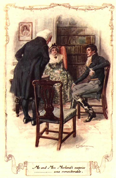 Colour illustration of a 1907 edition of Northanger Abbey (Jane Austen's novel), by C. E. Brock (died 1938)